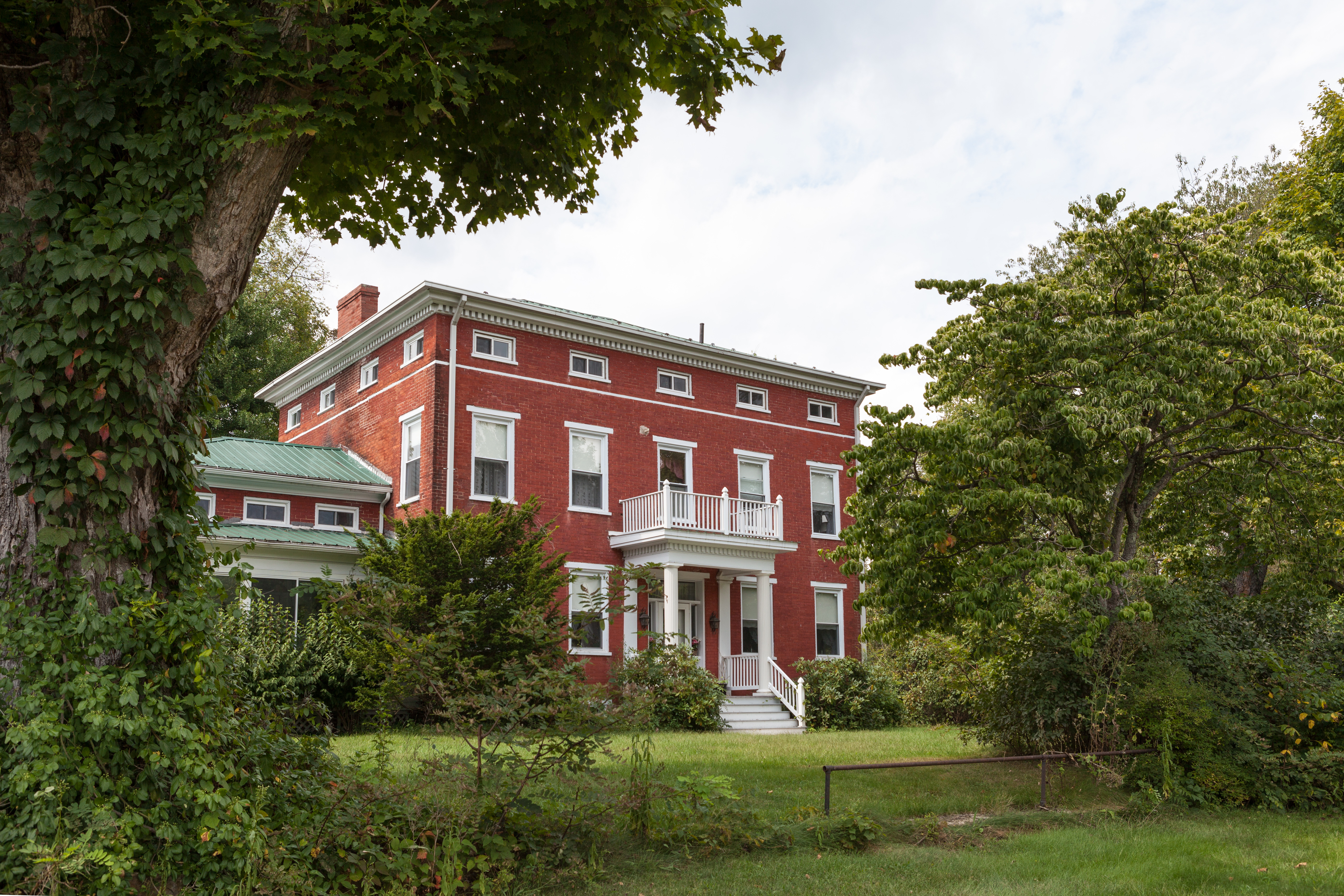 Benjamin B. Leas House, a historic home located at Shirleysburg in Huntingdon County, Pennsylvania